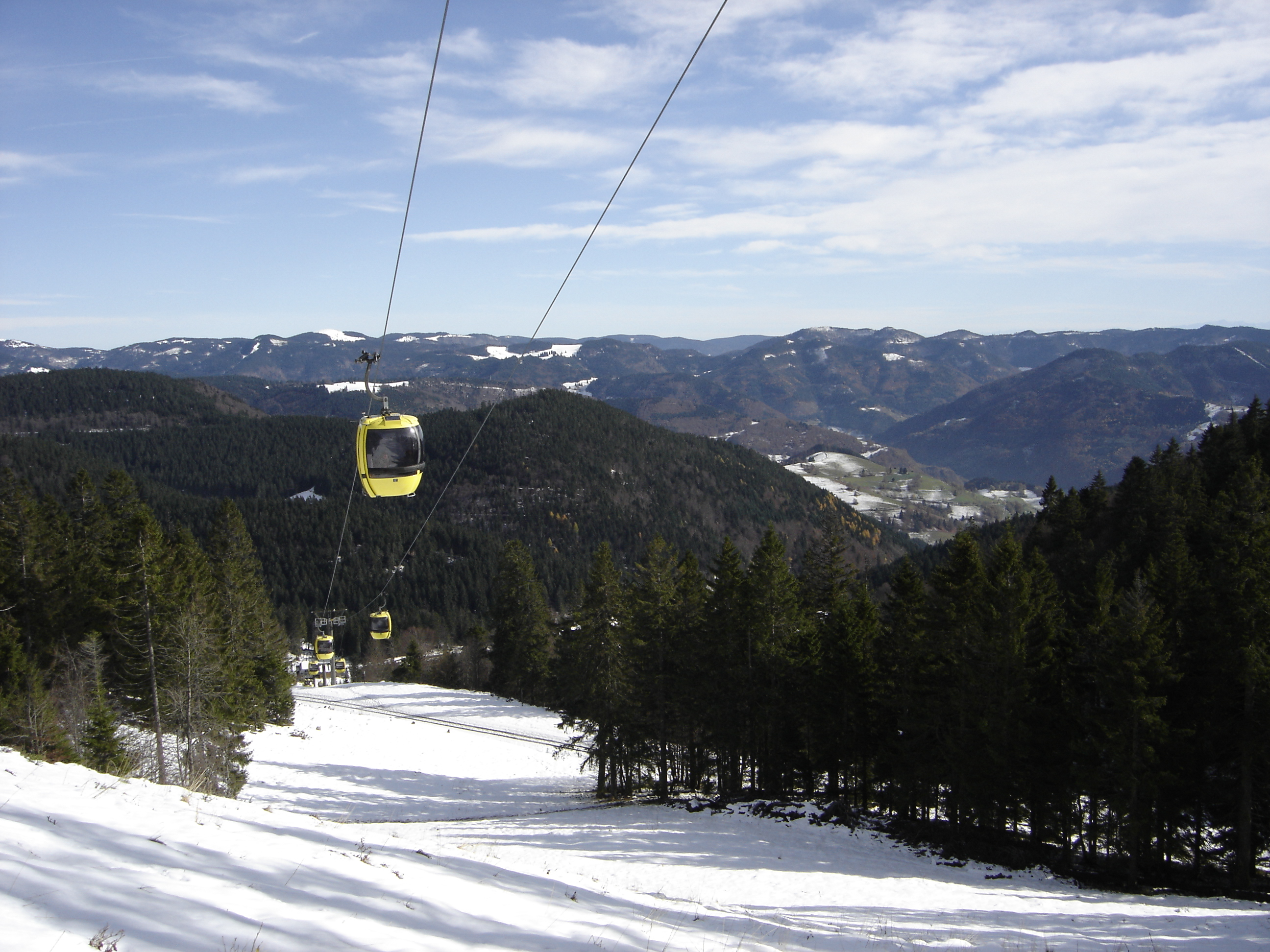 The Belchen (Black Forest)